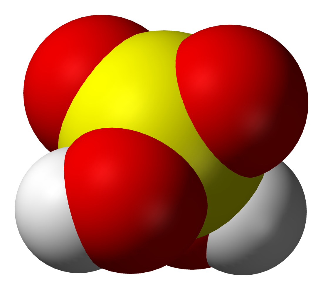 Space-filling model of the sulfuric acid molecule H2SO4. Structural data from A. Givan, L. A. Larsen, A. Loewenschuss and C. J. Nielsen (October 1999). "Matrix isolation mid- and far-infrared spectra of sulfuric acid and deuterated sulfuric acid vapors". Journal of Molecular Structure 509 (1-3): 35-47.